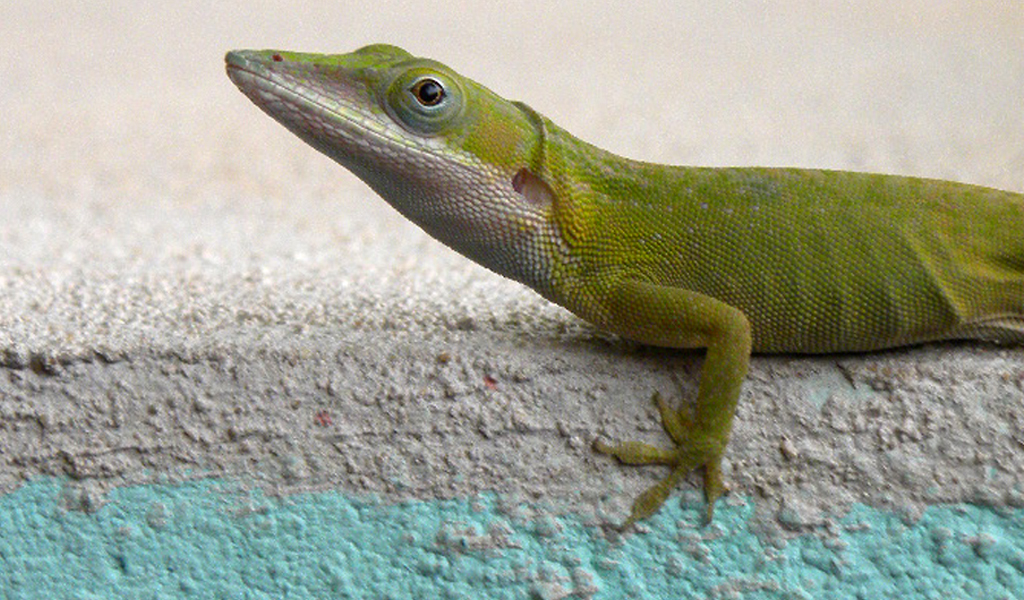 image taken with a lizard in my house.